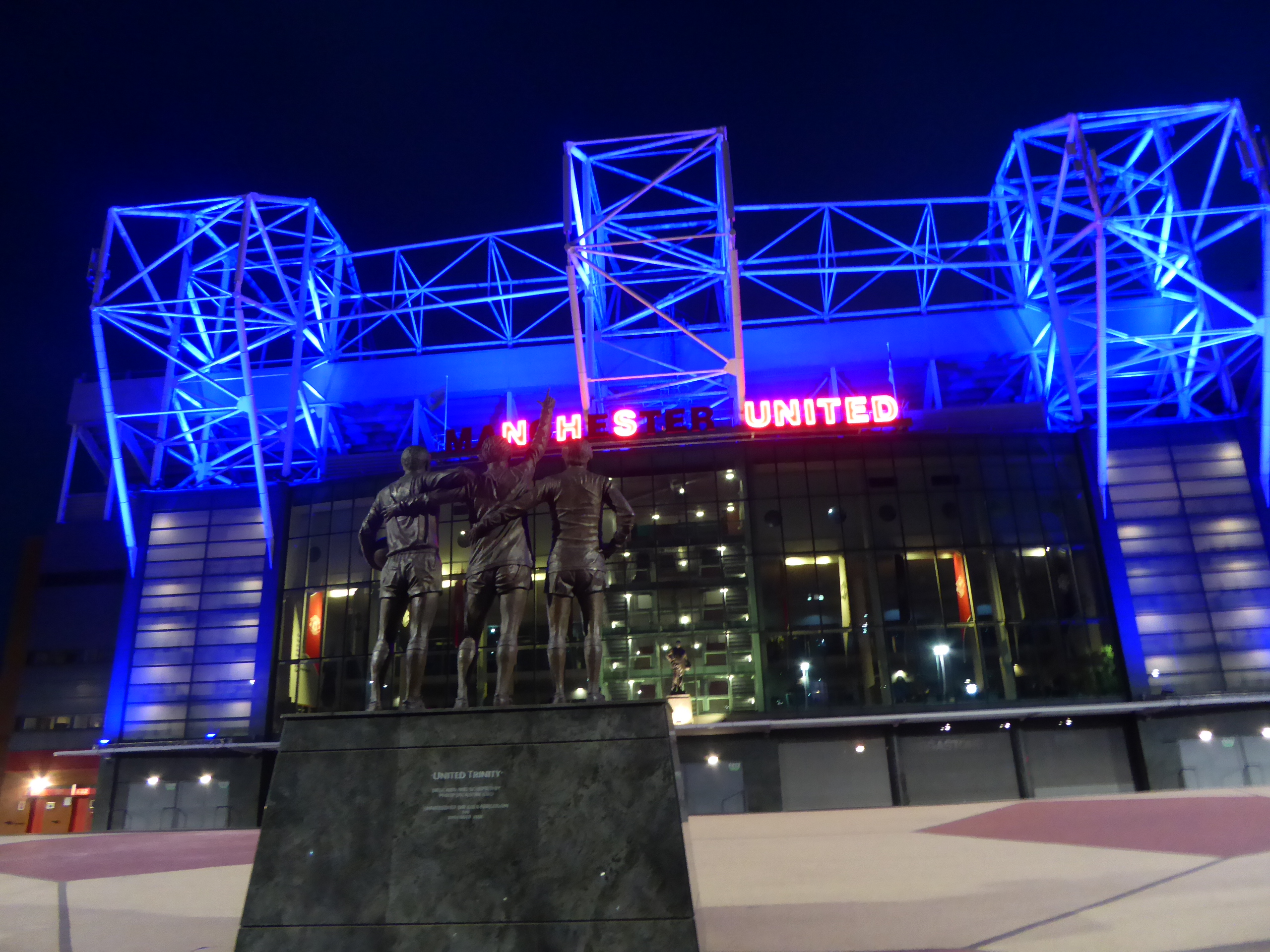 Old Trafford, Stretford, Metropolitan Borough of Trafford, Greater Manchester, England, April 2020